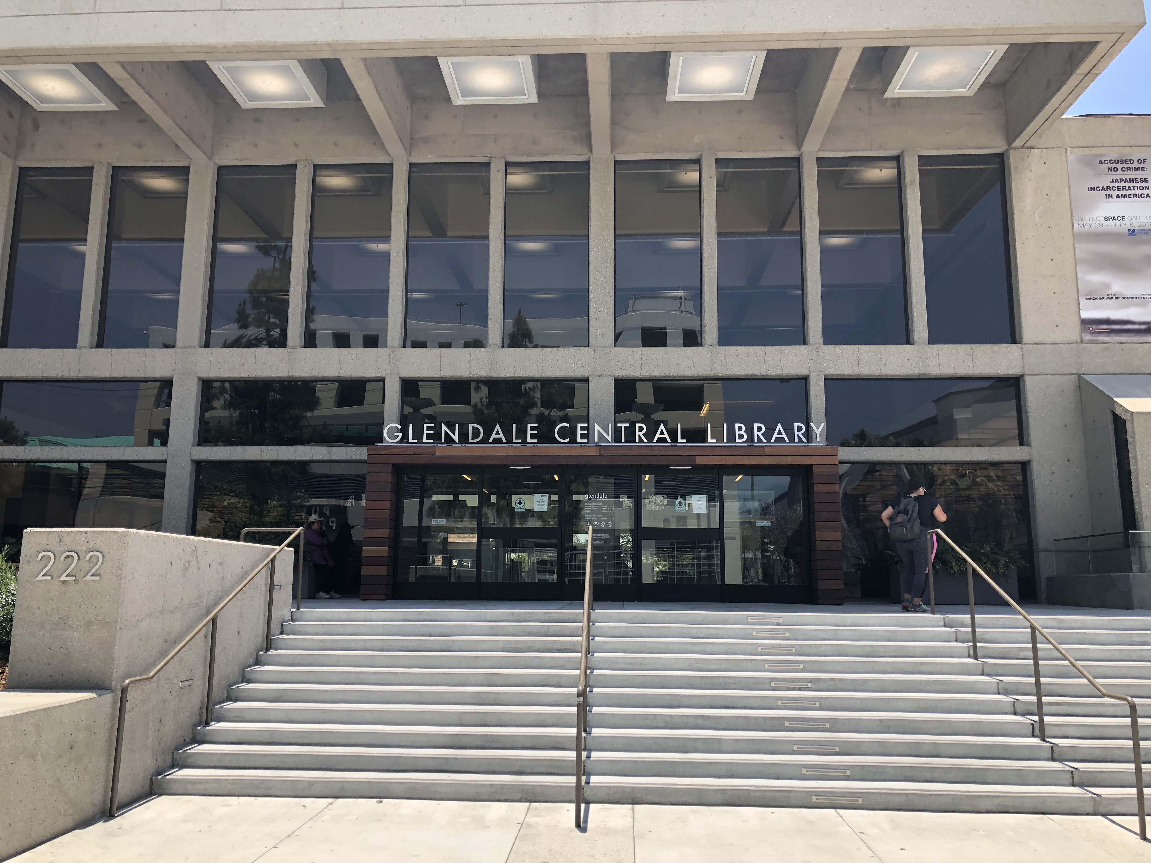 Entrance to the Downtown Central Library in Glendale, California. Shot with an iPhone 8 Plus. Feel free to use for free or commercial applications.